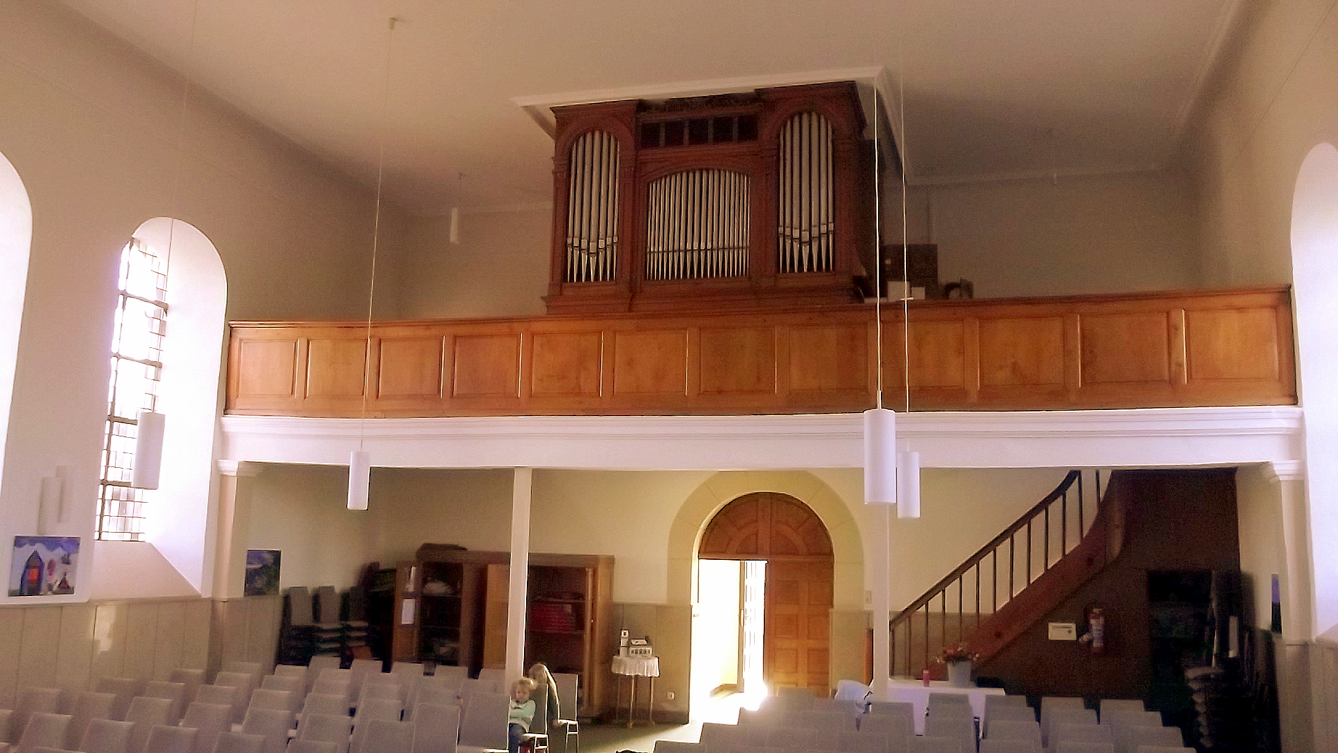 Interior of the protestant church in Werschweiler, Saarland, Germany